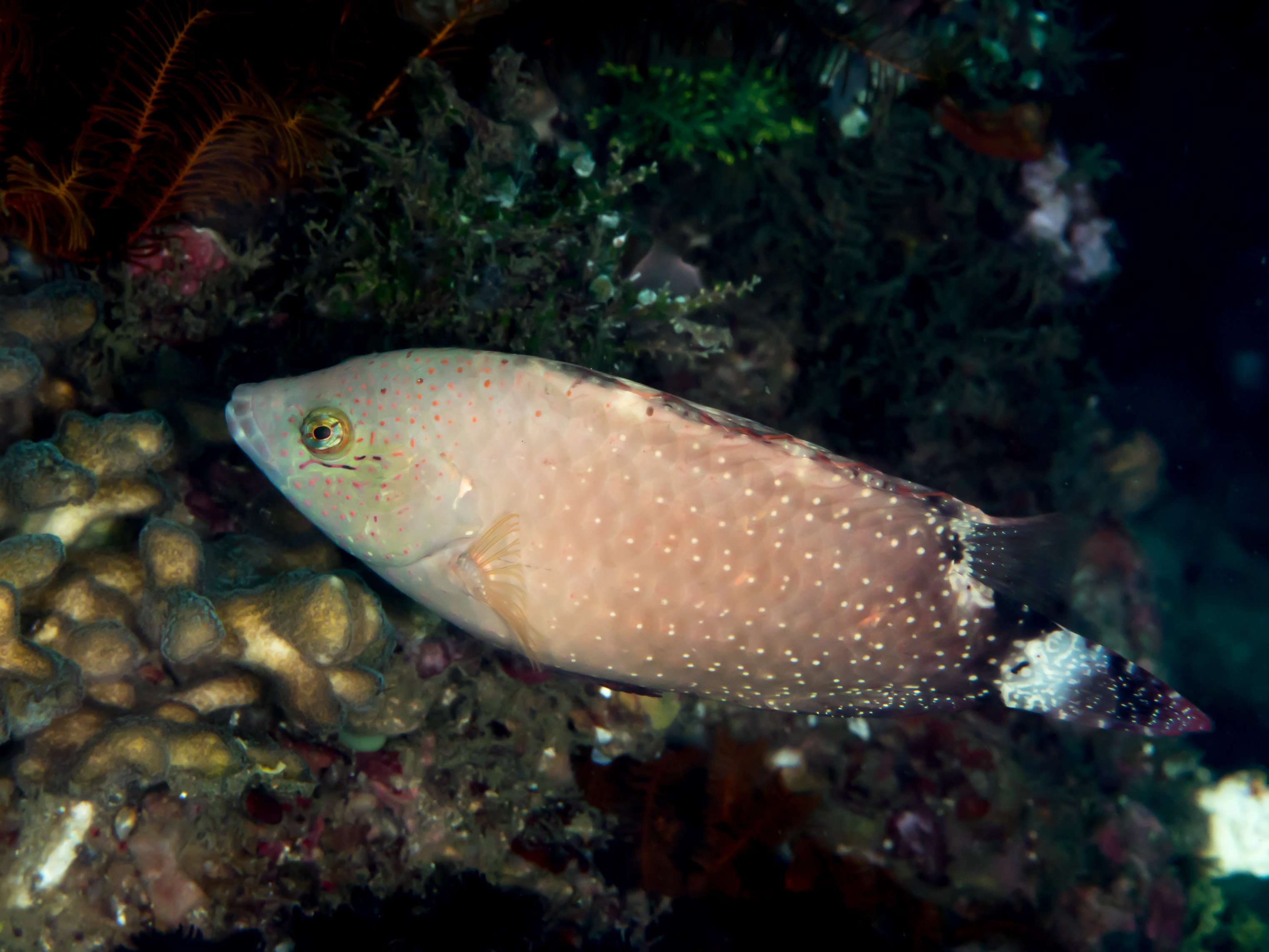 Lembeh, Indonesia - Floral wrasse (Cheilinus chlorourus)